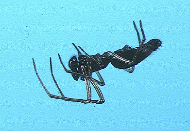 male Argyrodes cylindratus from Okinawa.